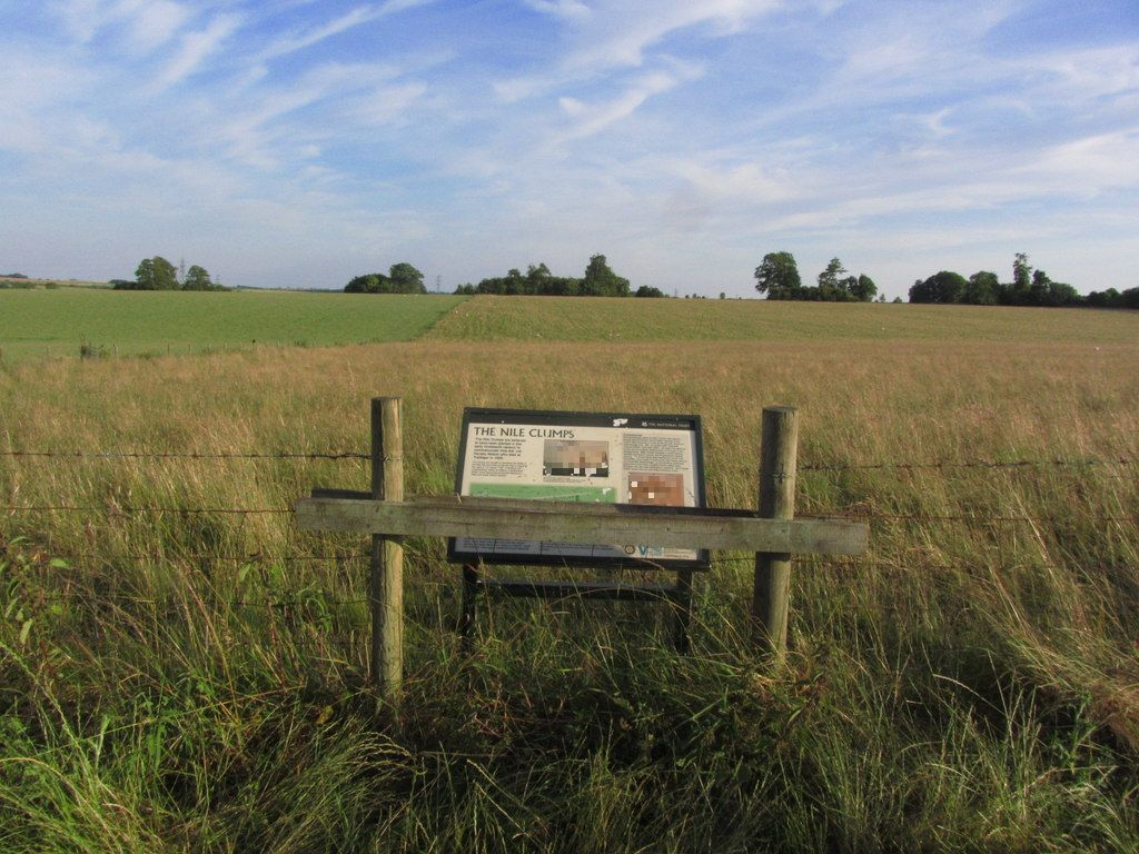 Amesbury - The Nile Clumps Plantation & information board